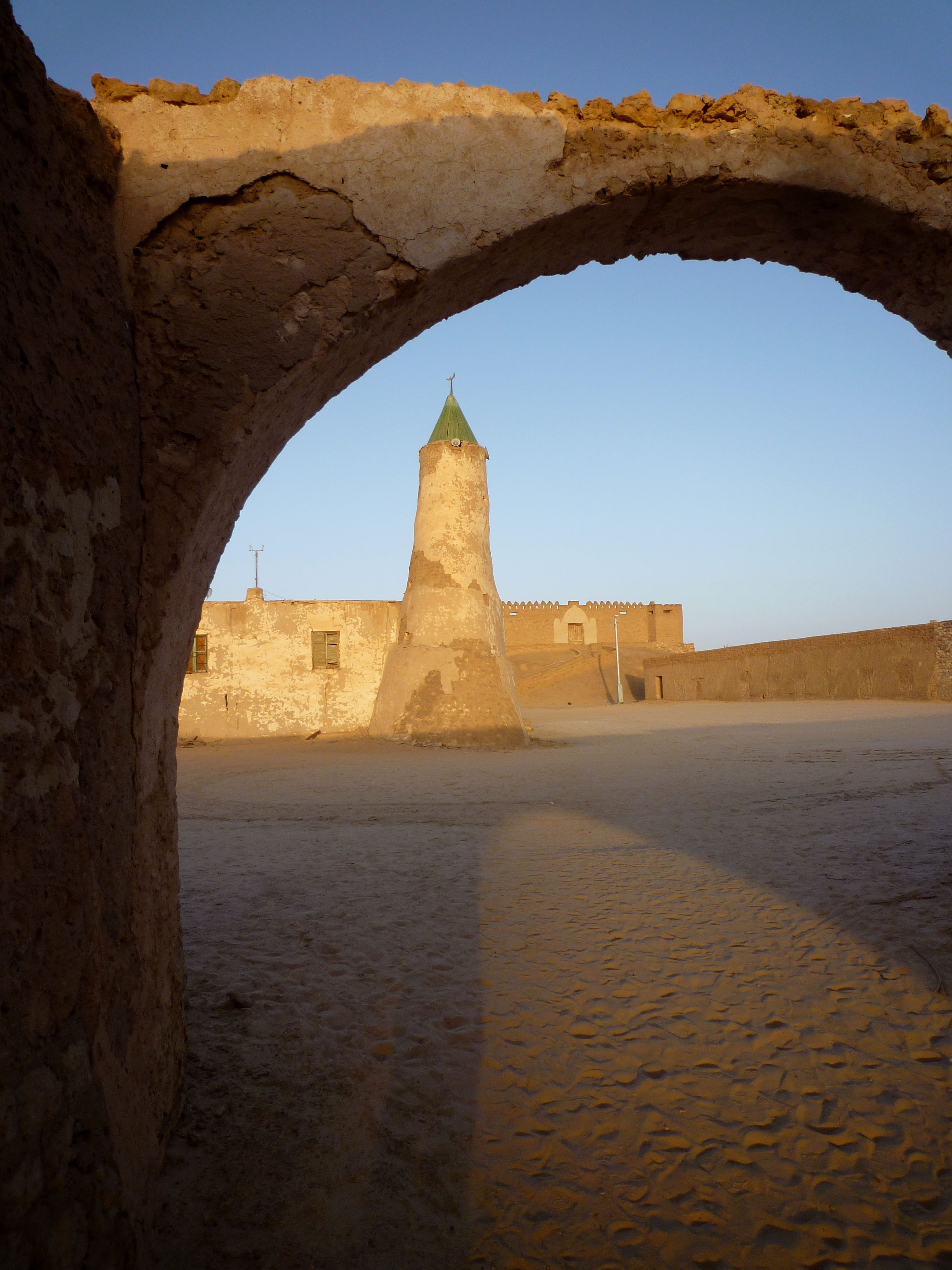 Ottoman mosque and minaret at Murzuk, Libya.